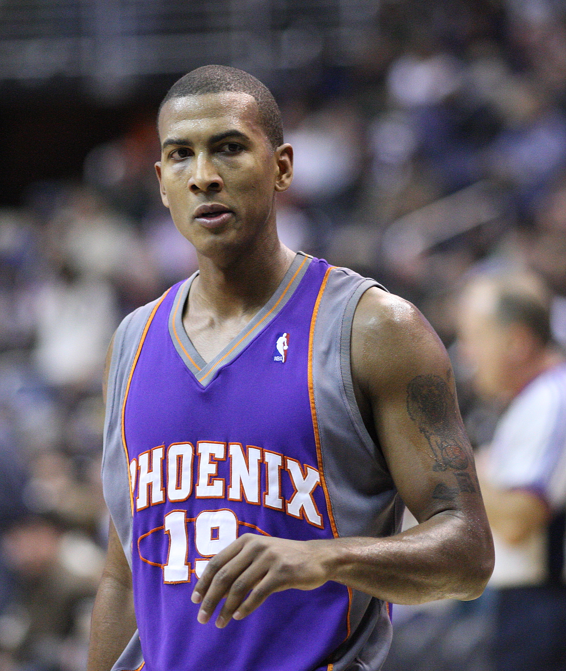 Raja Bell with the Phoenix Suns, December 2007.